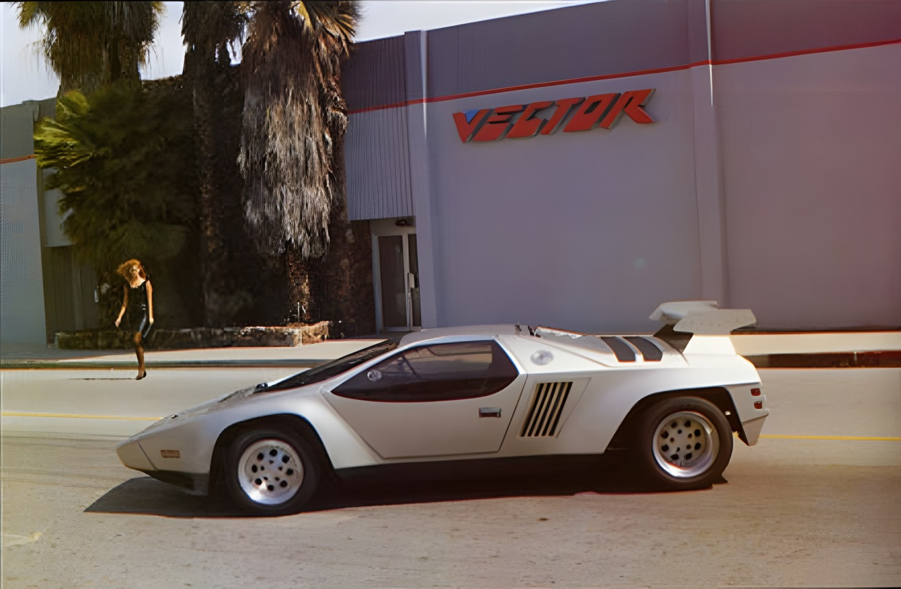 Shot for Mr. Wiegert in 1983, the W2 painted in silver at the Vector building in Wilmington, CA